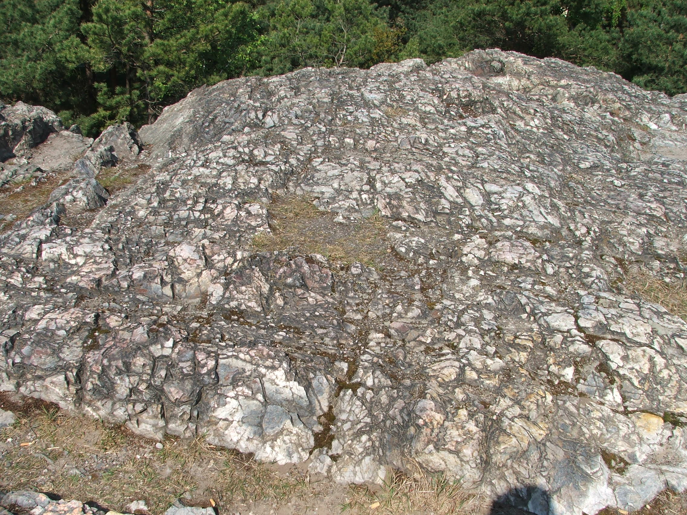 Rock Redstone